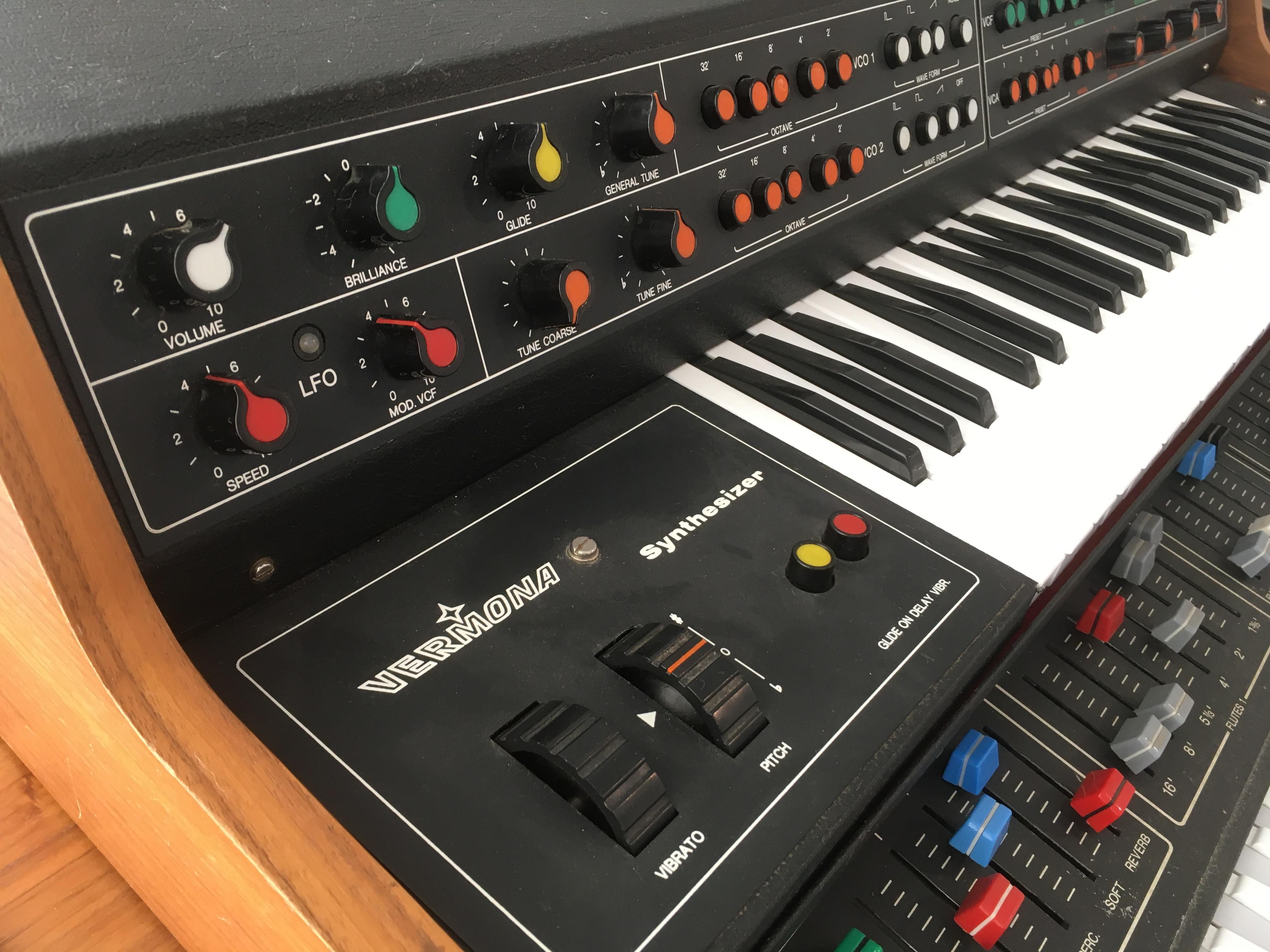 Vermona Synthesizer (1983) at Harmonikamuseum Zwota, Germany